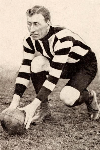 Photograph of Dave Ryan from the 1910 Weekly Times Victorian Footballer Postcard Series